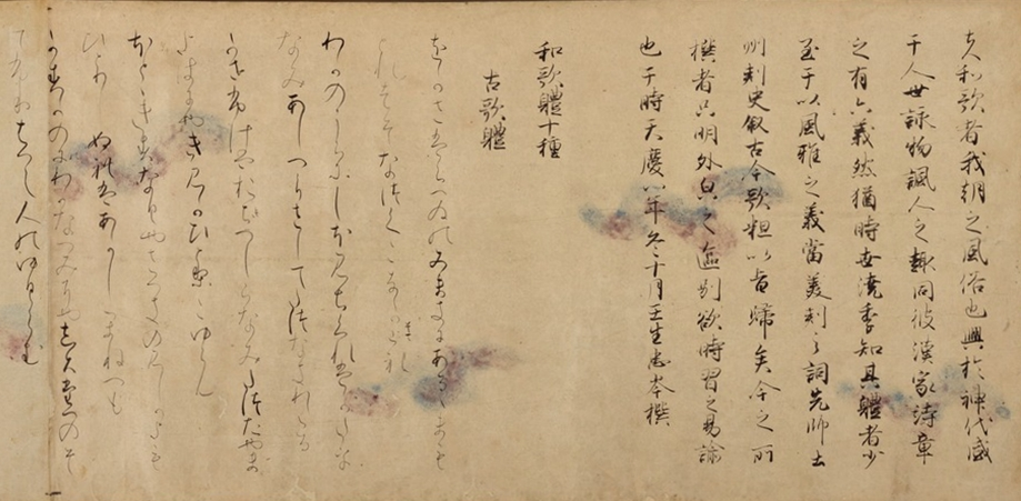 Ten Varieties of Waka Style (和歌躰十種 Wakatai jisshu). Discussion of the ten waka styles with five examples written in hiragana each; also named "Ten Styles of Tadamine"; oldest extant manuscript of this work. Part of one scroll, ink on decorative paper, 26.0 × 324.0 cm (10.2 × 127.6 in). Located at Tokyo National Museum, Tokyo.